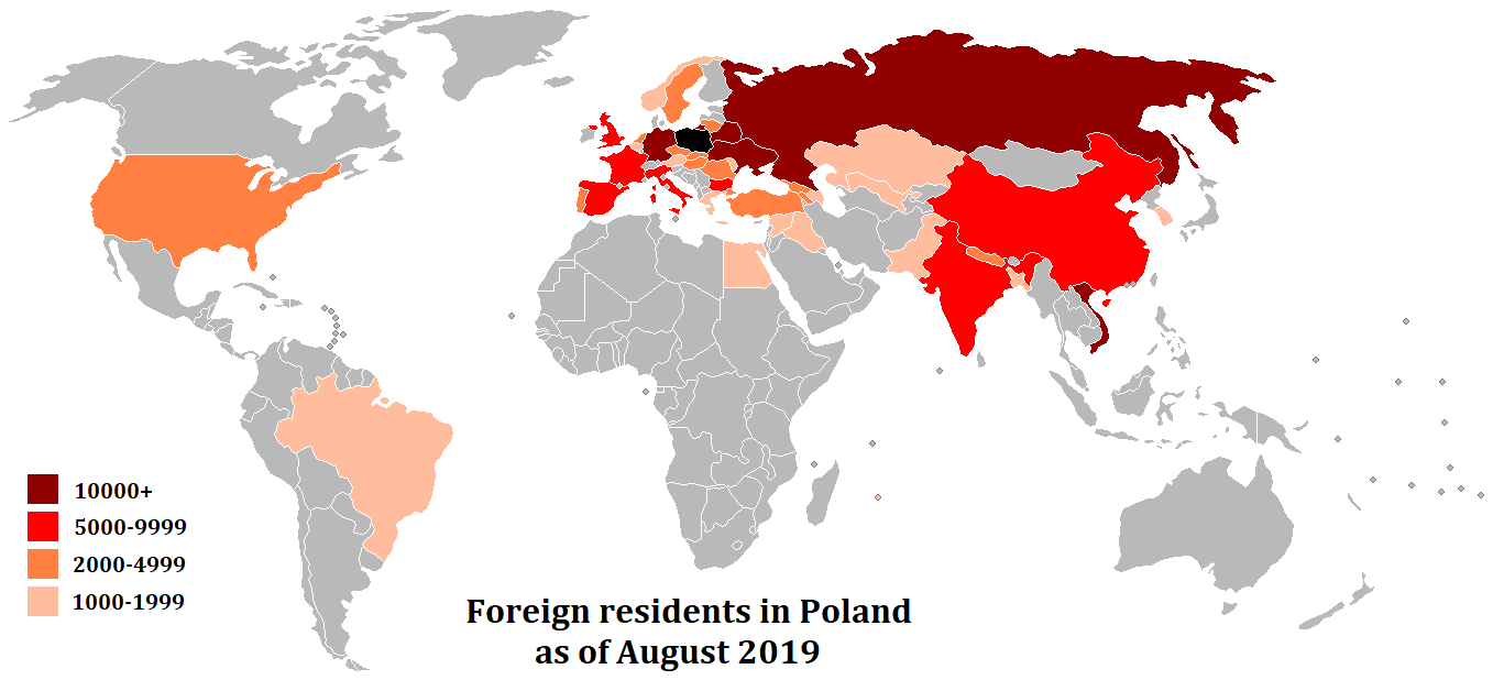 Migrant population in Poland by country of birth